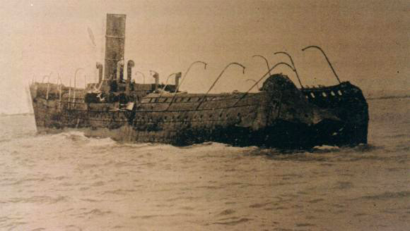 Hulk of SS Antonio López at Dorado, Puerto Rico.